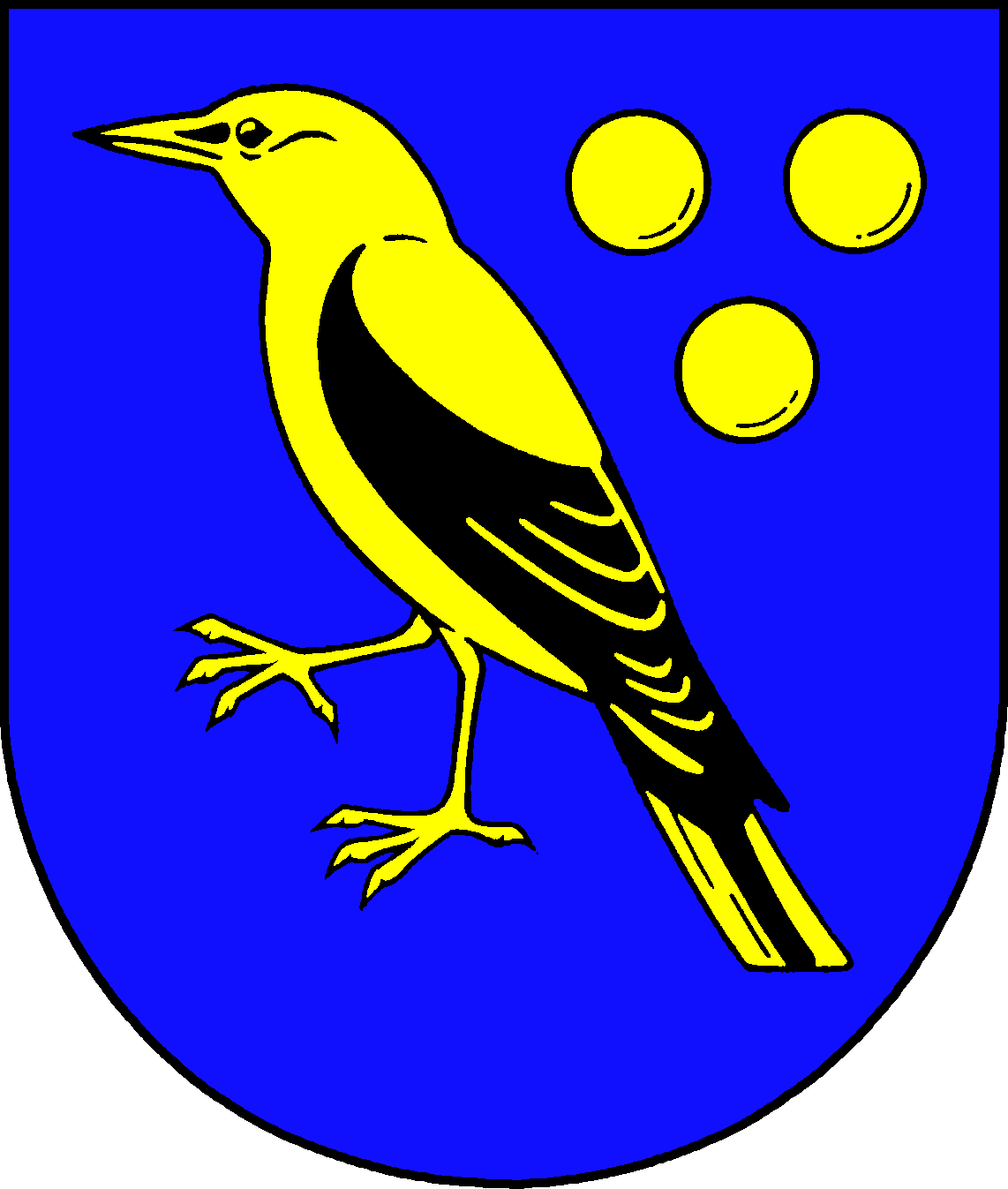 Coat of arms of the municipality Göttin in Schleswig-Holstein, Germany.